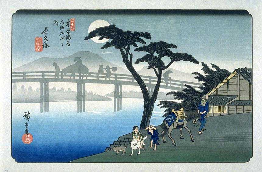 Nagakubo on the Kisokaido, ukiyo-e prints by Hiroshige